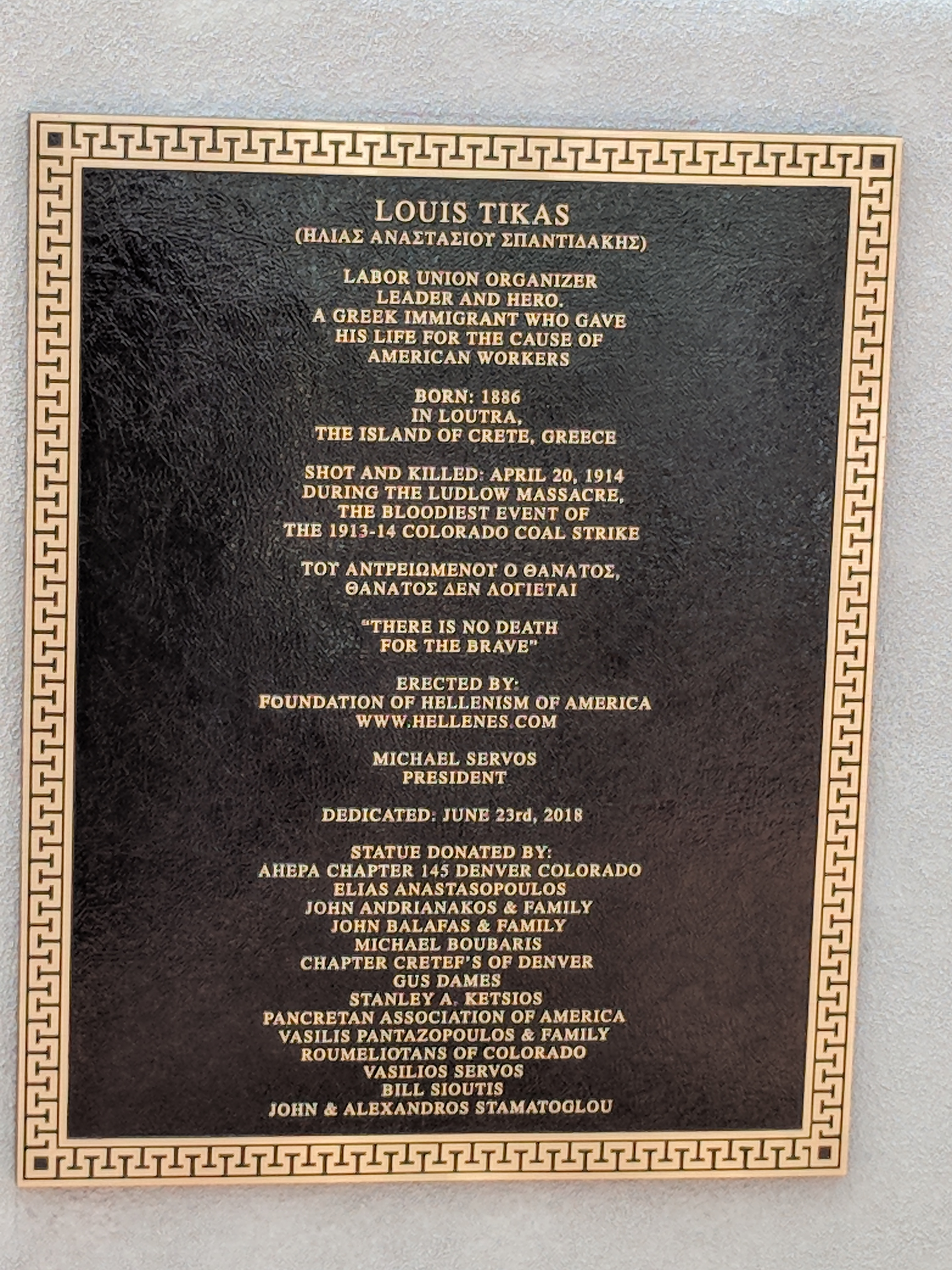 This is the dedication plaque located on the base of the Tikas Statue.